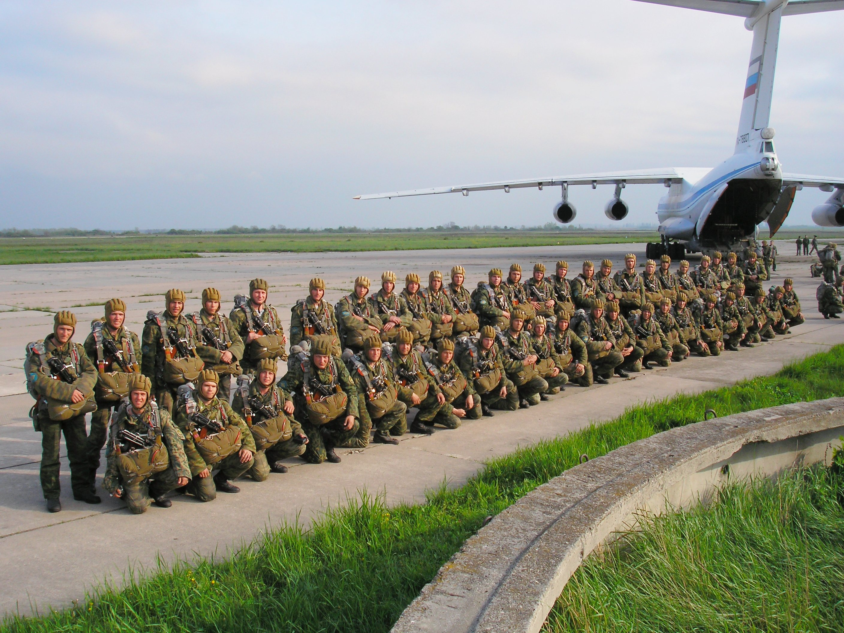 Trainees of РВВКУС before parachute jump